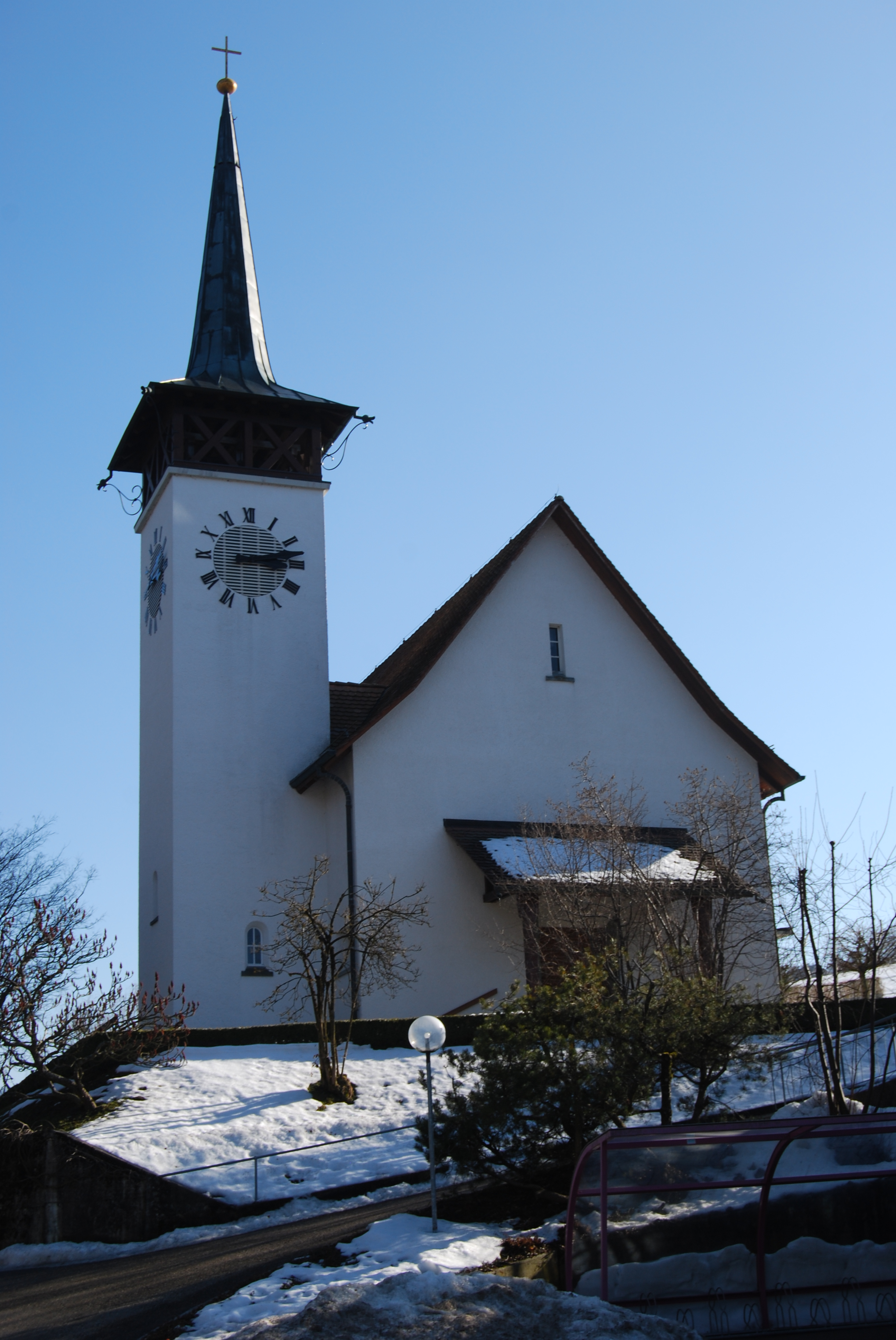 Protestant Church of Wyssachen, canton of Bern, Switzerland